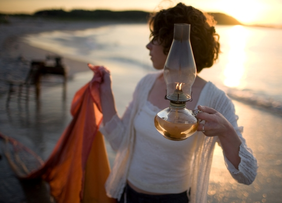 Photograph of Meg Hutchinson